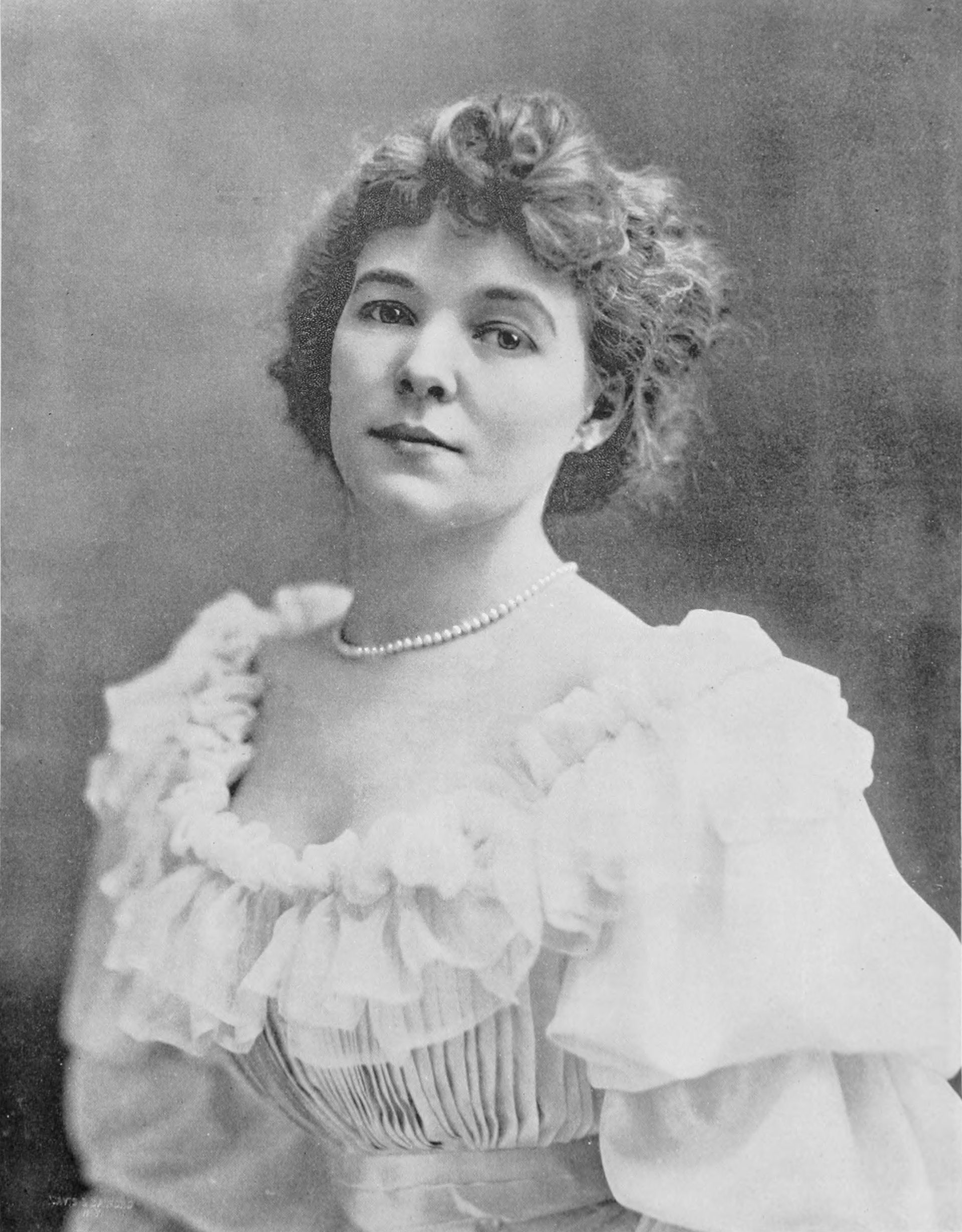 Portrait of Mena Cleary, by Davis & Sandford, New York